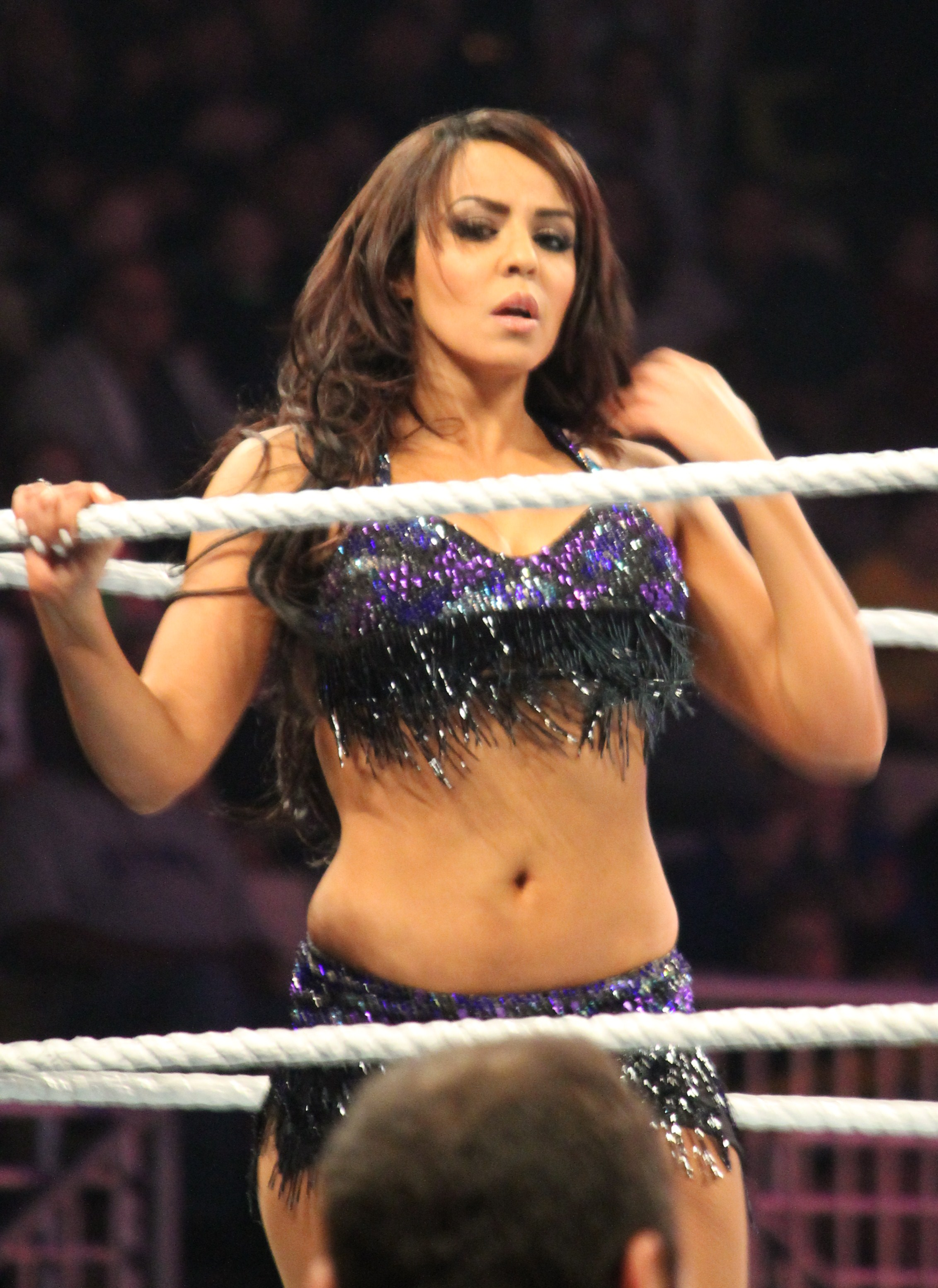 Layla at the post-WrestleMania SmackDown tapings on 8 April 2014 in Lafayette.